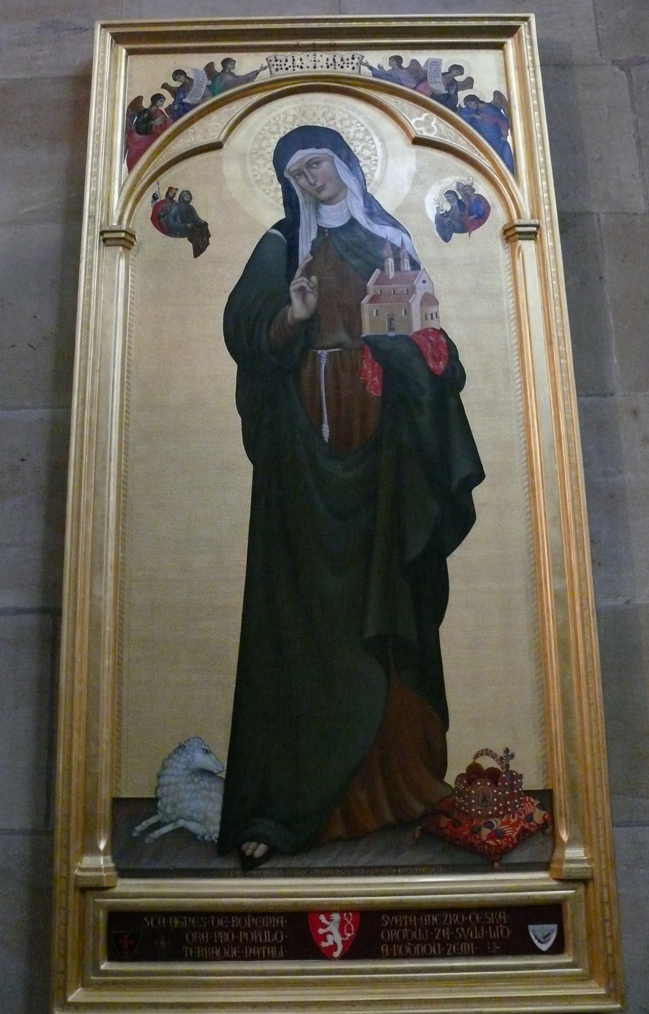 Agnes of Bohemia